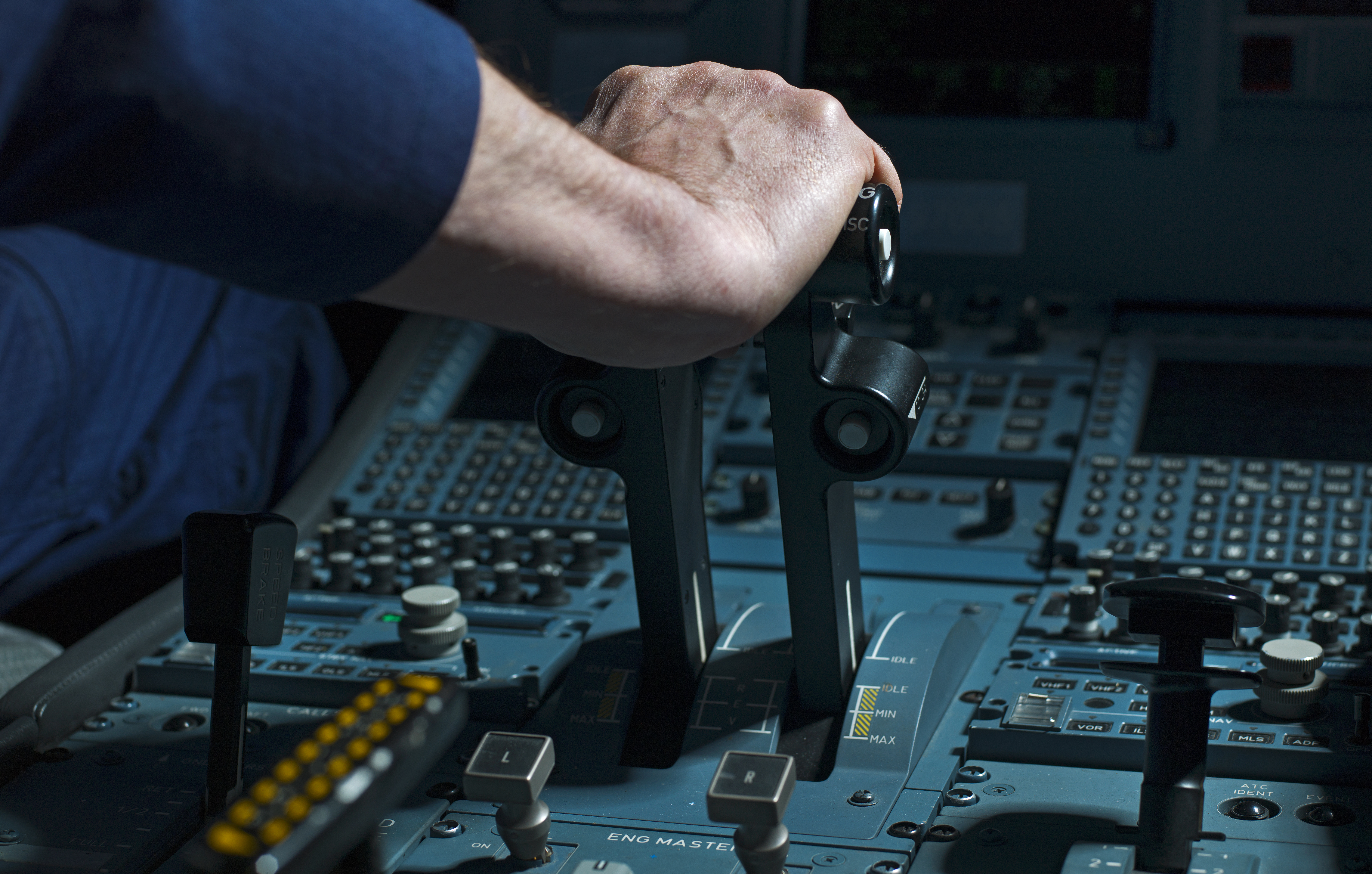 Thrust levers in the cockpit of the Sukhoi Superjet 100